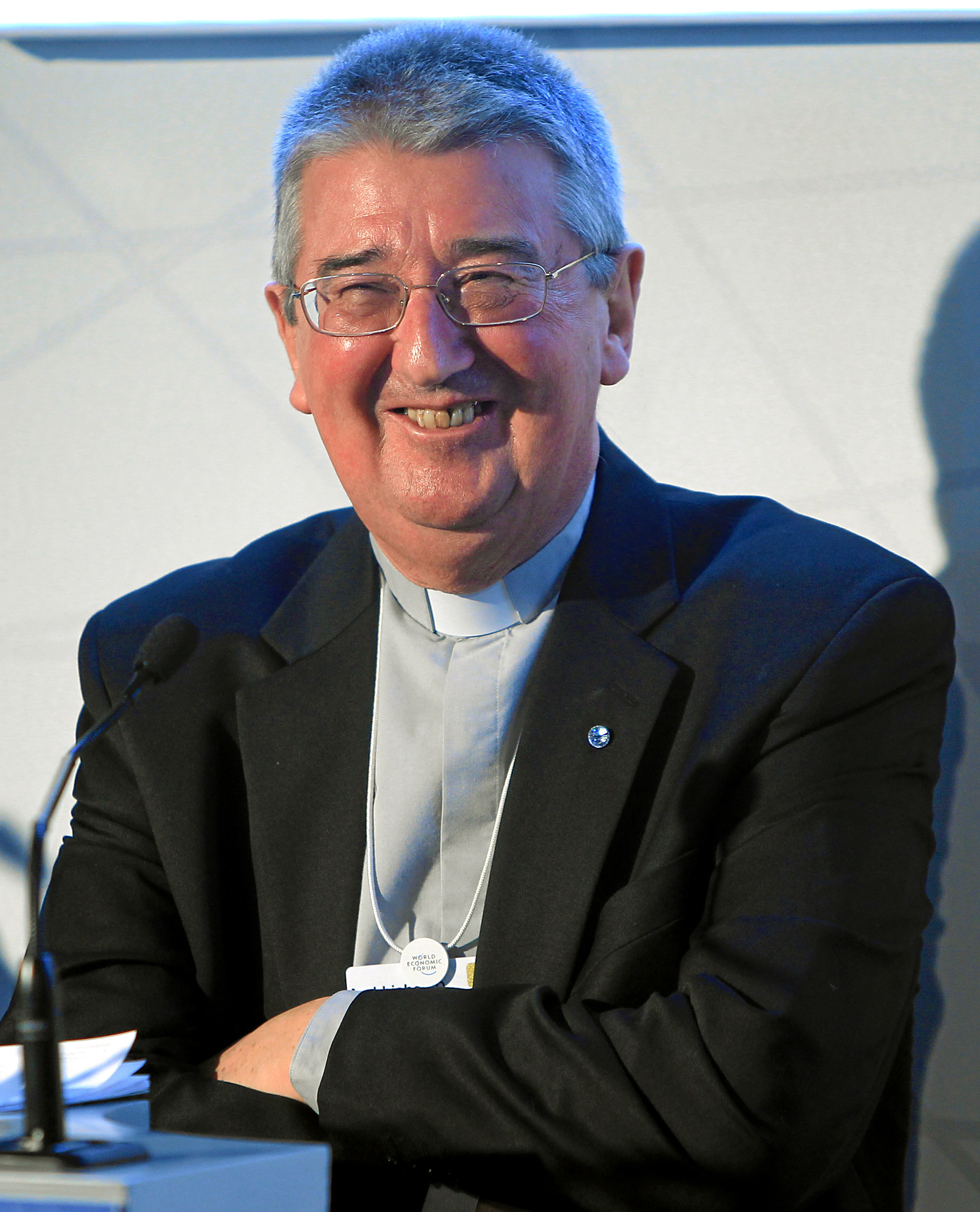 DAVOS/SWITZERLAND, 26JAN13 - Diarmuid Martin, Archbishop of Dublin, Ireland, smiles during the session 'X Factors: Preparing for the Unknown' at the Annual Meeting 2013 of the World Economic Forum in Davos, Switzerland, January 26, 2013.. . Copyright by World Economic Forum. . Sebastian Derungs